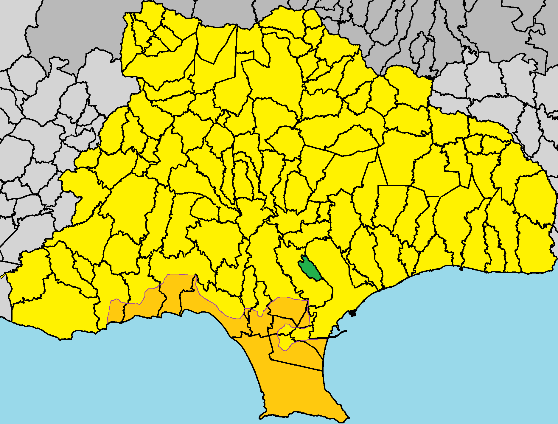 Pano Polemidia in Limassol District.